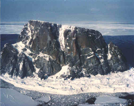 Fairway Rock (RTGs) Bering Strait (Spring 1989); original picture from the U.S. Navy's Arctic Submarine Laboratory